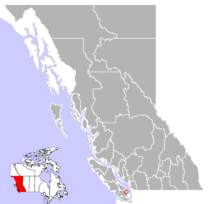 Location of Chemainus